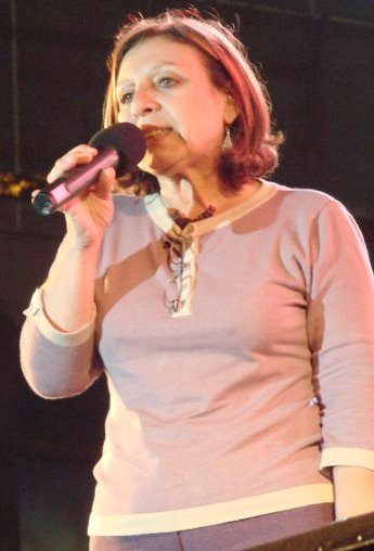 Ana Olivera, politician.